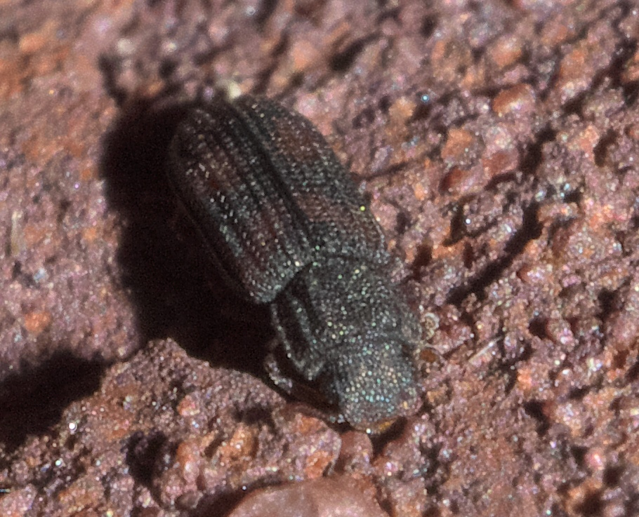 Bitoma quadriguttata, Subfamily: Cylindrical Bark Beetles, ID Confidence: 98